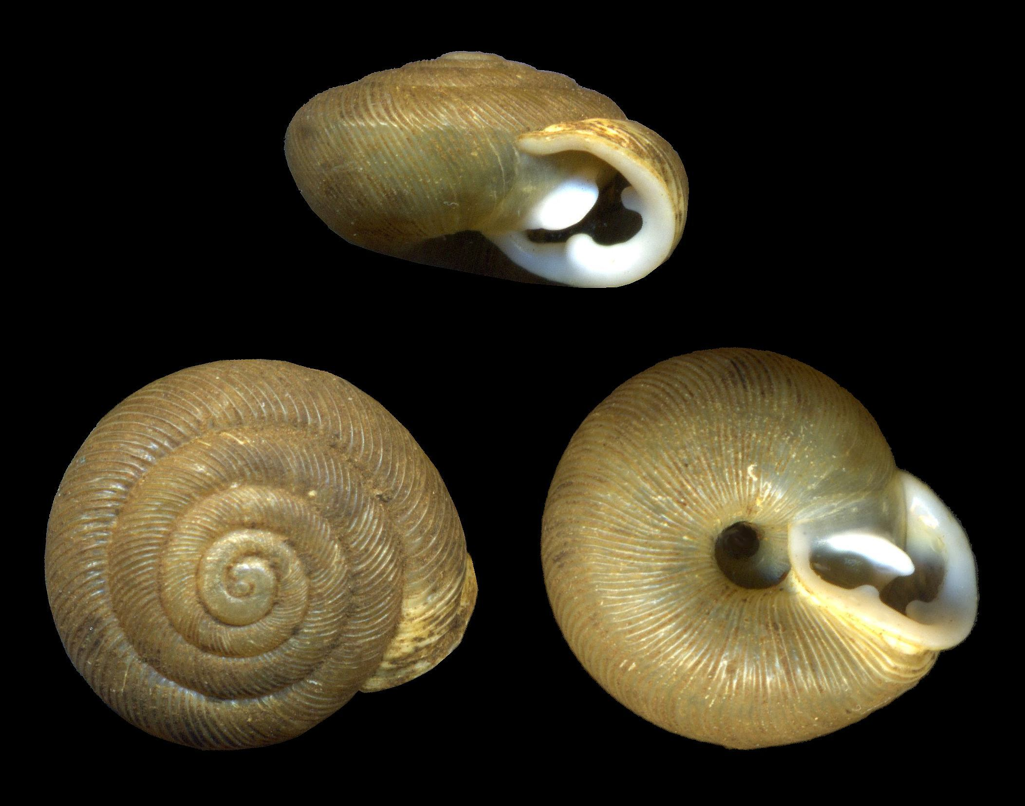 The polygyrid land snail Triodopsis hopetonensis from Leon County, Florida, USA; 1965. (about 10 mm in diameter, or approx. 3/8 inch)